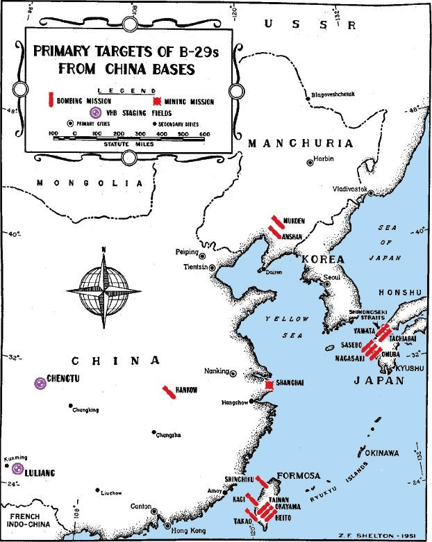 Primary targets of United States Army Air Forces B-29 bombers operating from bases in China during World War II